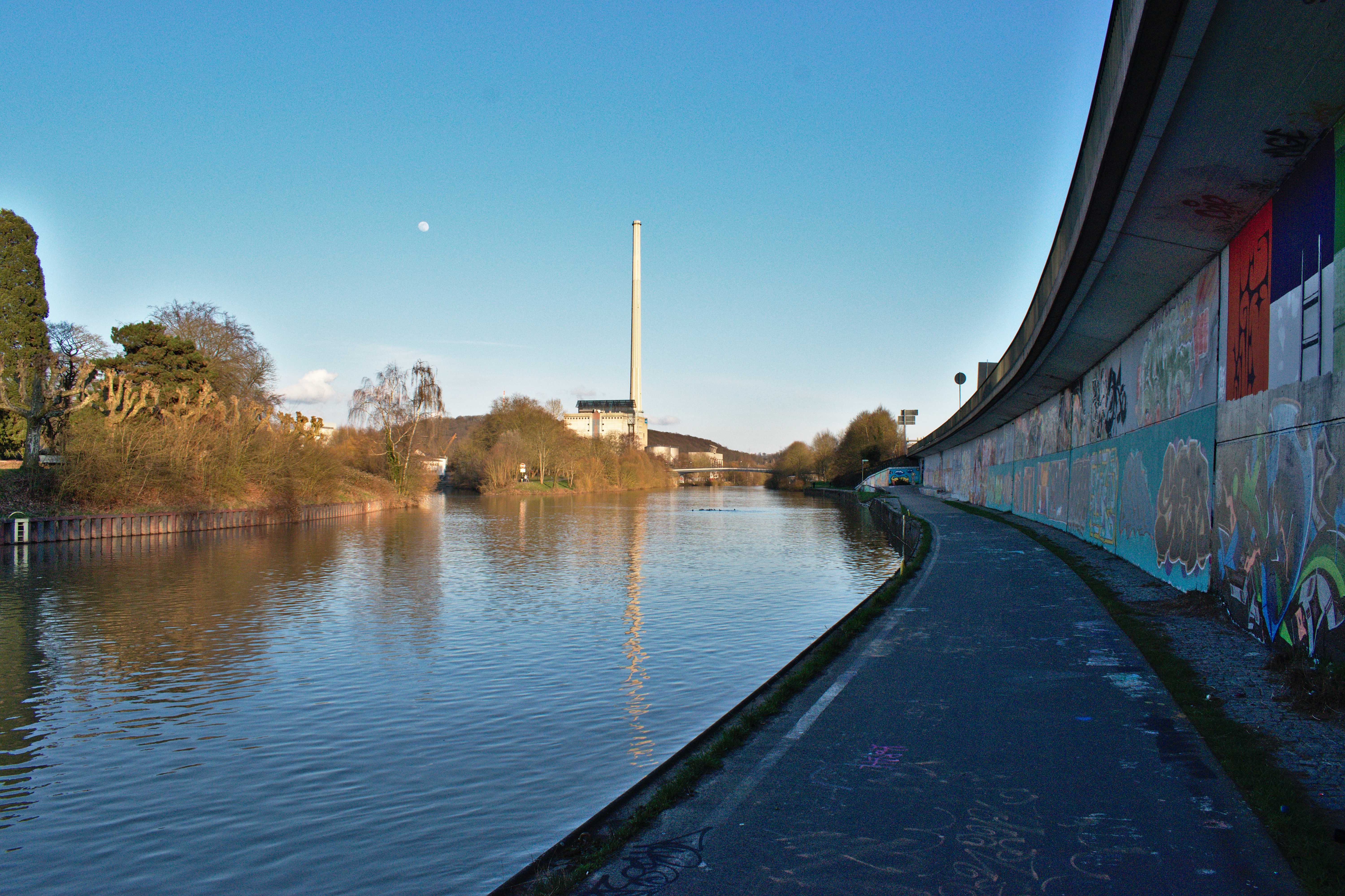 Graffities from May, 2018, at the so called 4560 in Saarbrücken, and view on the heat and power station.